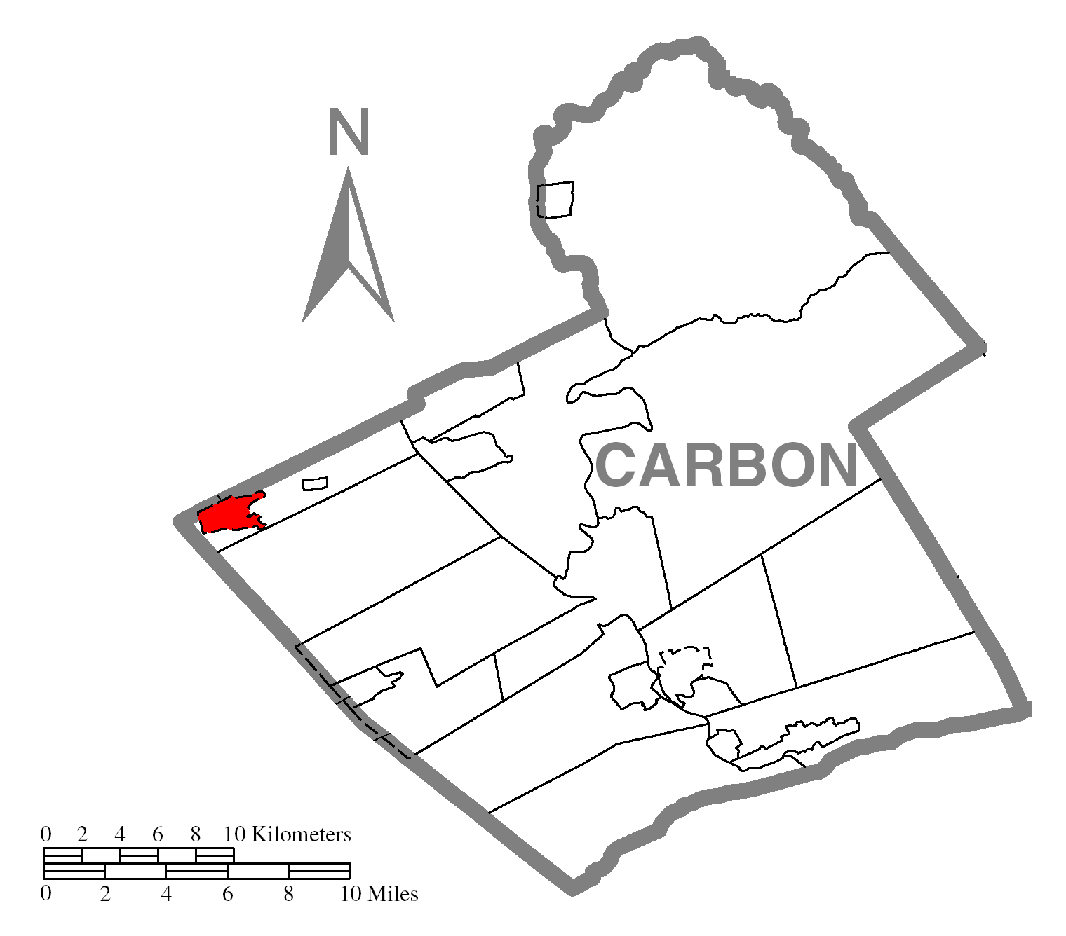 A map of Carbon County showing Tresckow, Pennsylvania (alternate) highlighted on the map.